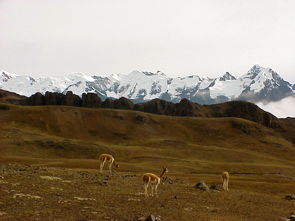 Vicuna in the wild with the Cordillera Oriental in the background, Andes, North of the city of La Paz, Bolivia.